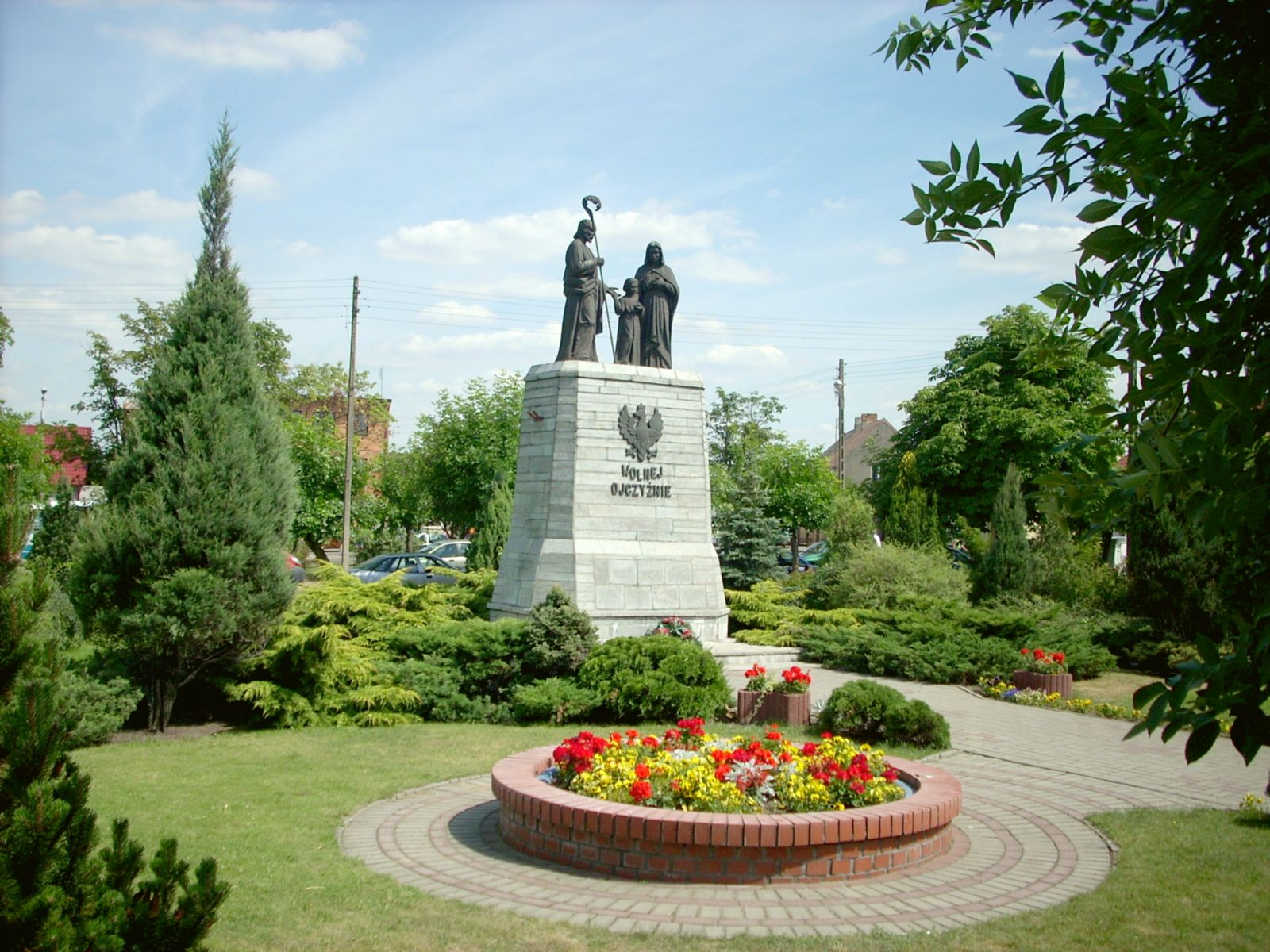 Historic monument for a regaining independence in Slesin.